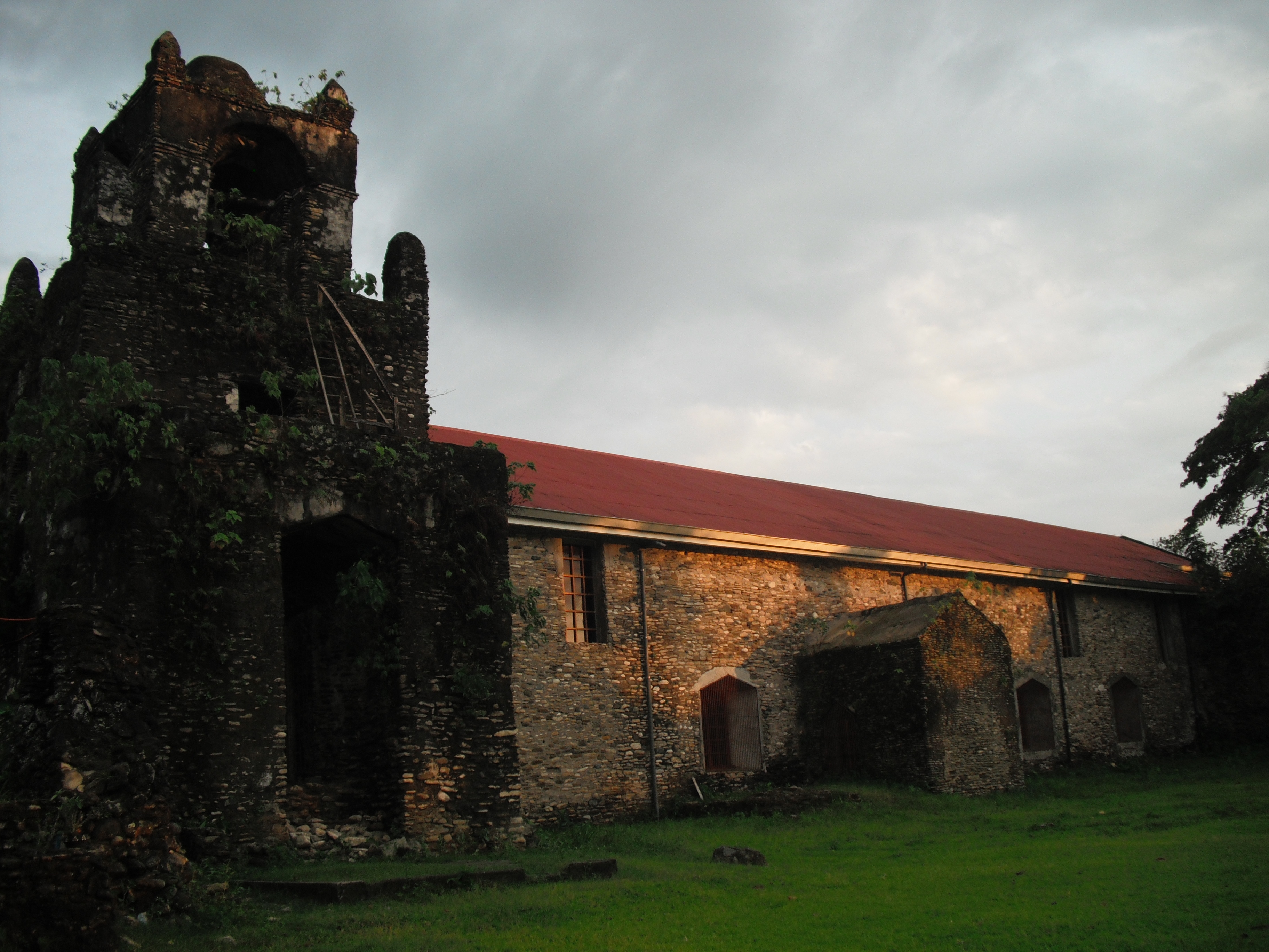 the oldest stone church in the Philippines